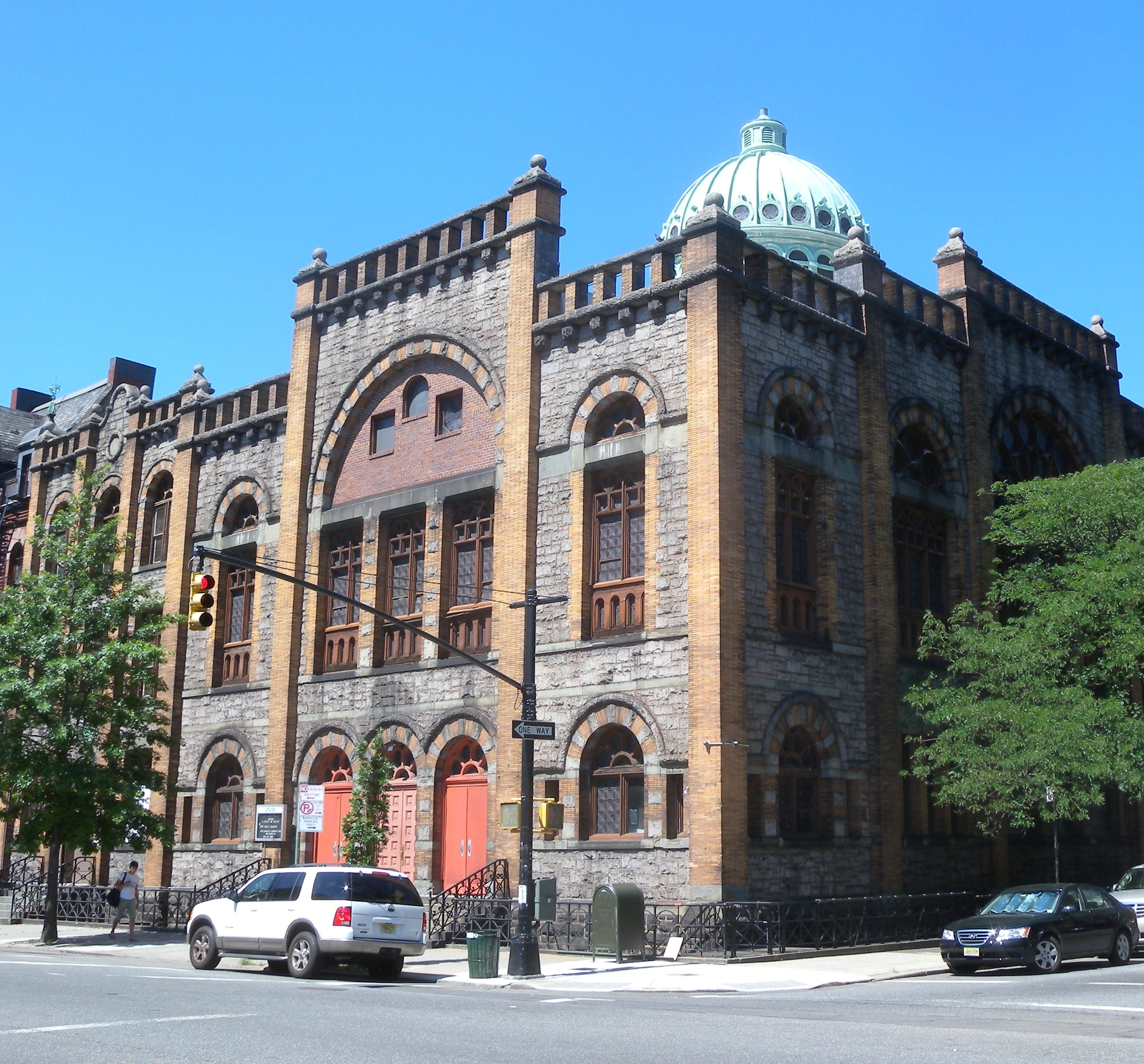 Looking west at church on a sunny midday, with dome.